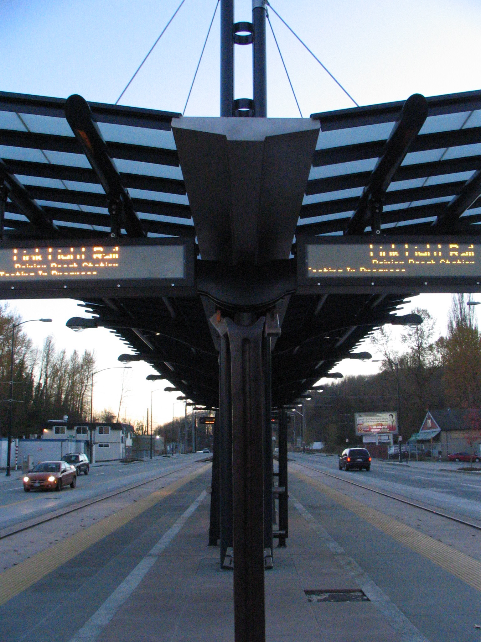 By Flickr user litlnemo, picture of the Rainier Beach Link Light Rail Station in Seattle.